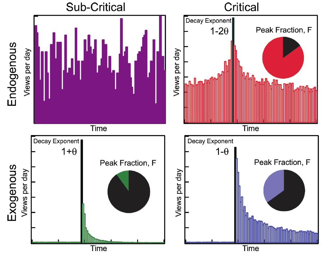 Four regimes of views per day of YouTube videos as discussed in Crane, Riley, and Didier Sornette. "Robust dynamic classes revealed by measuring the response function of a social system." Proceedings of the National Academy of Sciences 105.41 (2008): 15649-15653.